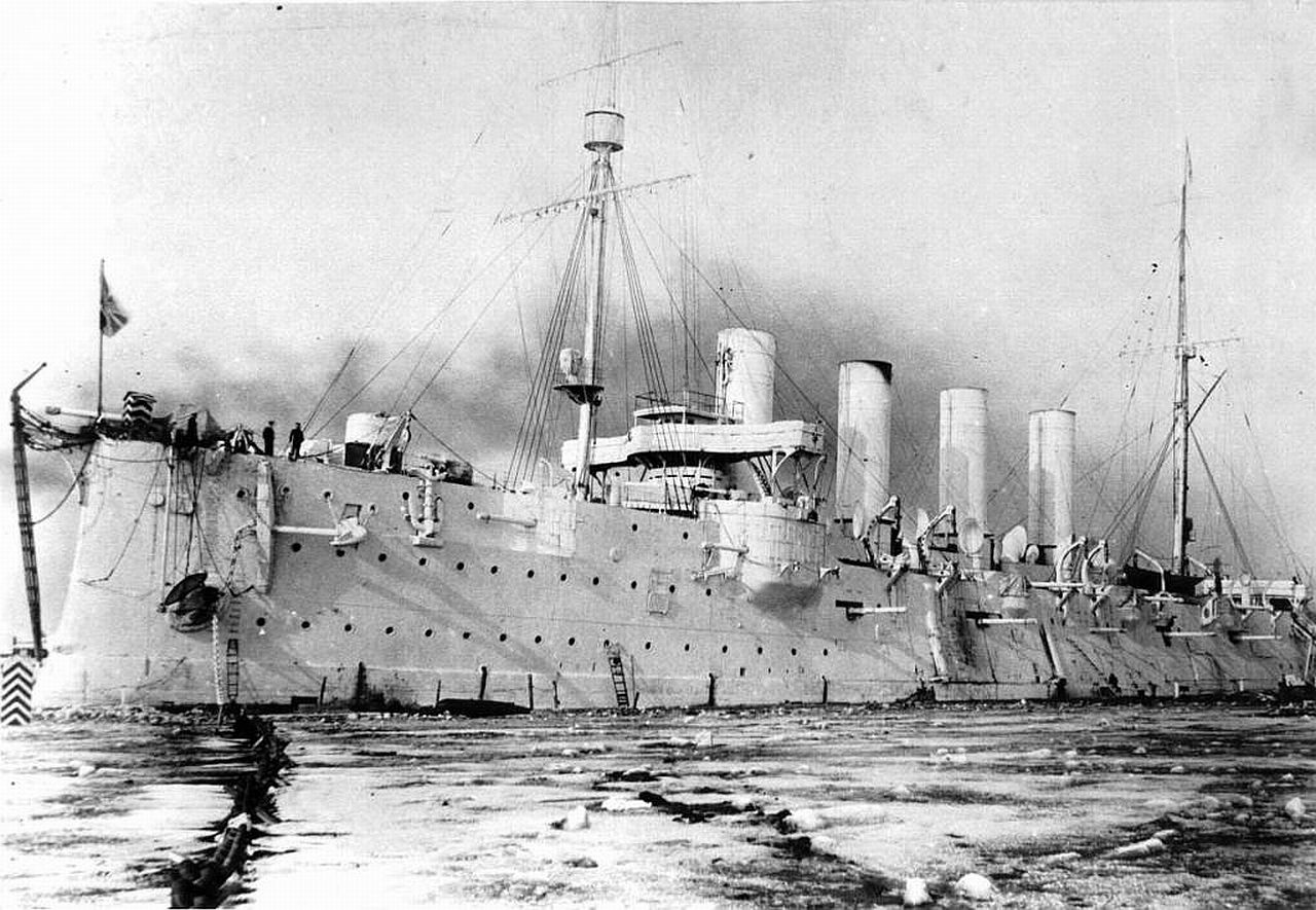 Imperial Russian cruiser Rossiya in Helsingfors.